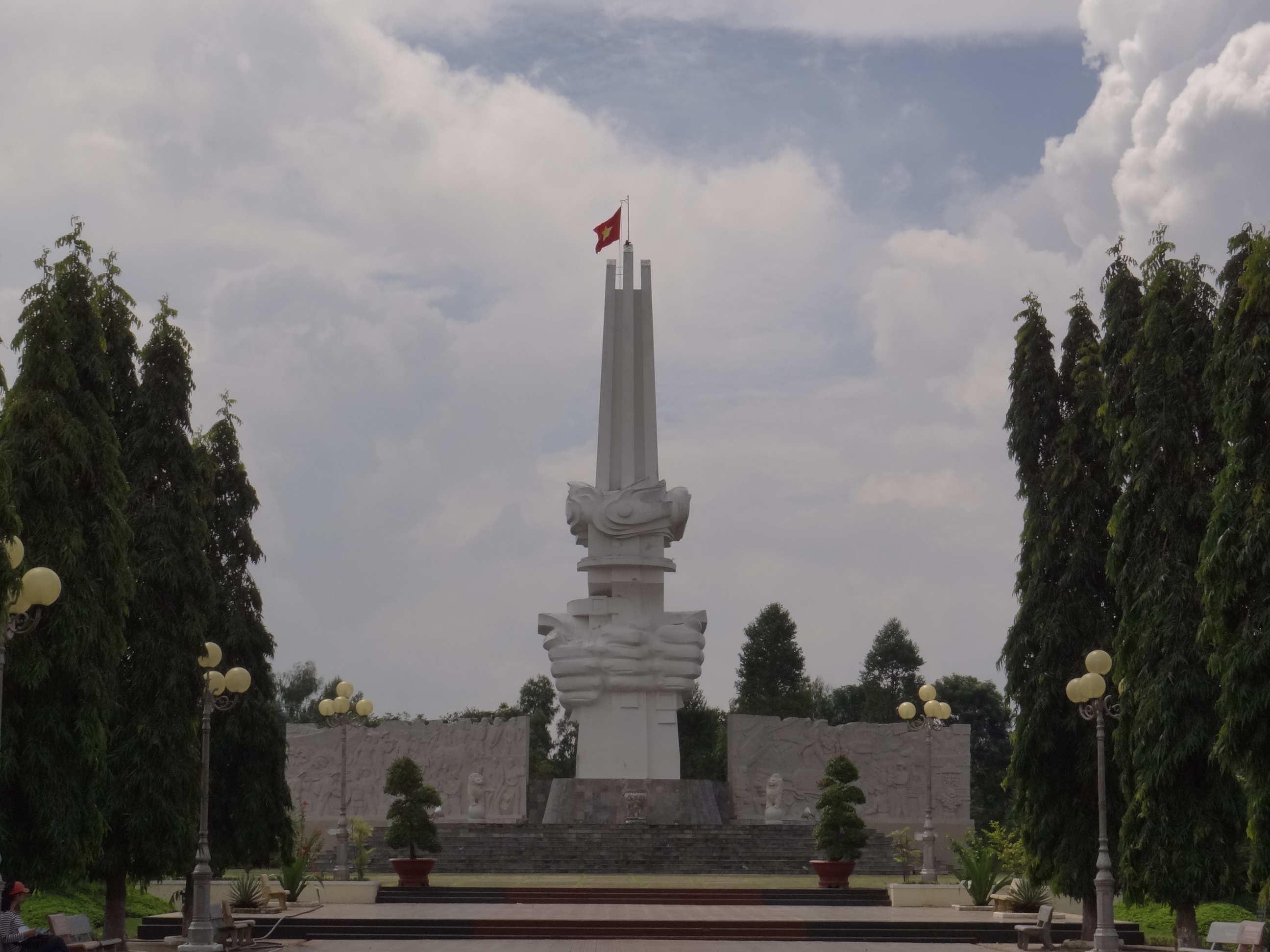 Battle of Binh Gia victory monument in Chau Duc district, Ba Ria - Vung Tau province